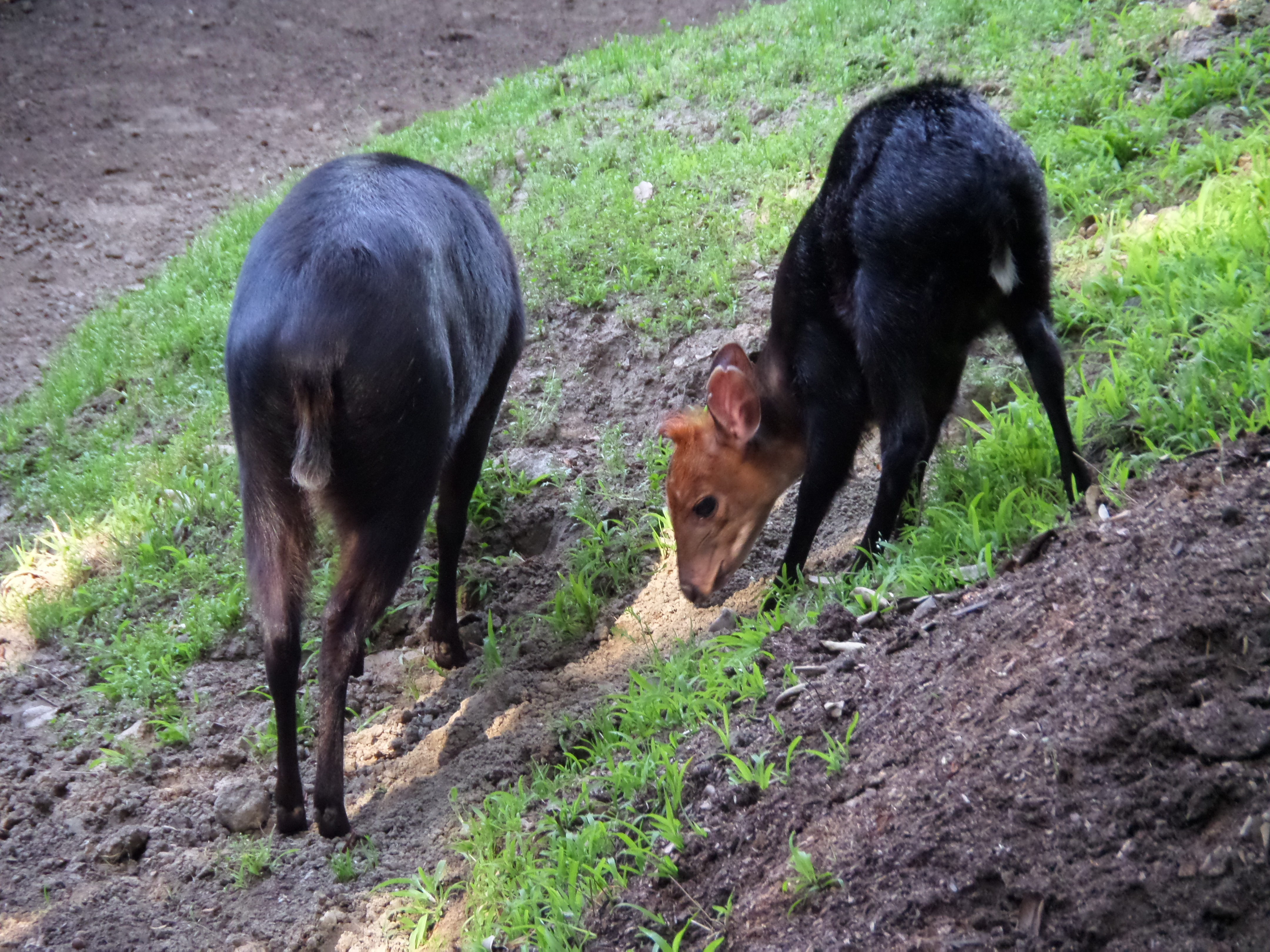 Black duikers in San Diego Zoo